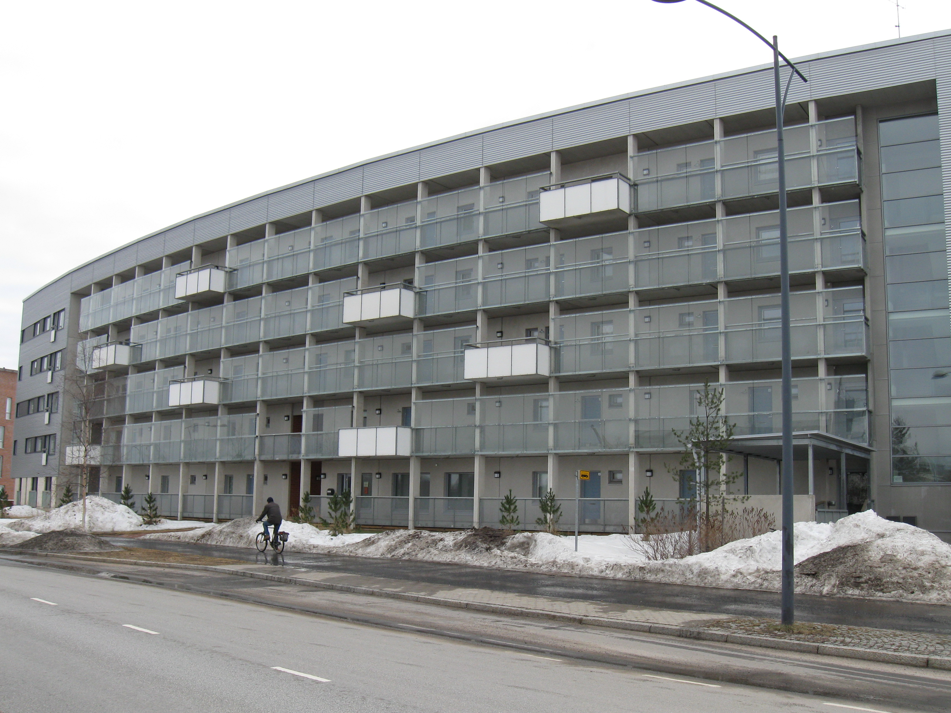 A block of flats with open-air corridors in Toppilansaari, Oulu, Finland.